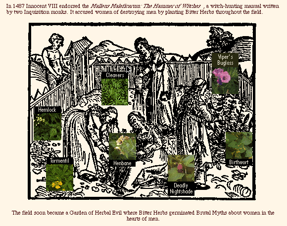 personal image created for the wiki etal.